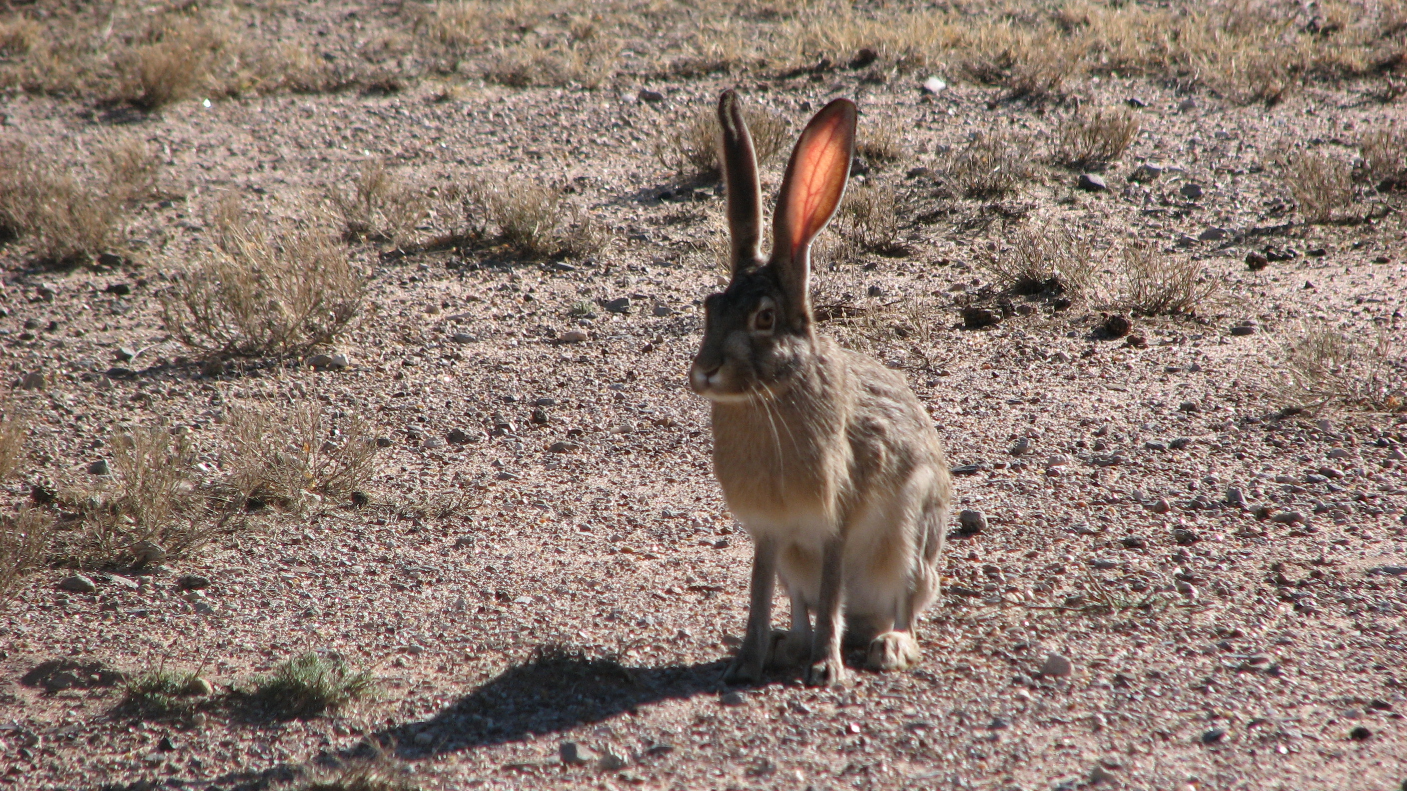 Jackrabbit at The Replica of old Fort Bliss